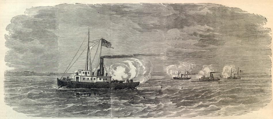 From Harper's Weekly, Oct.19, 1861. Shows Fanny attacked by Raleigh, Curlew, and Youngalaska.